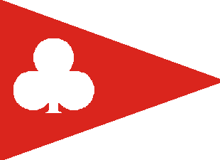 Union Army, II Corps - Army of the Potomac, Artillery Badge